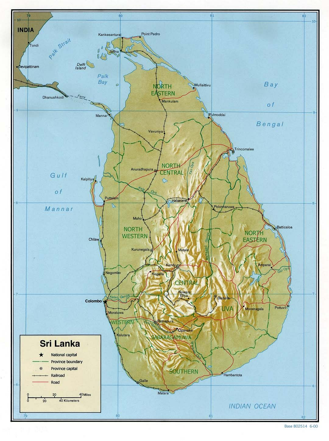 Topographical map of Sri Lanka